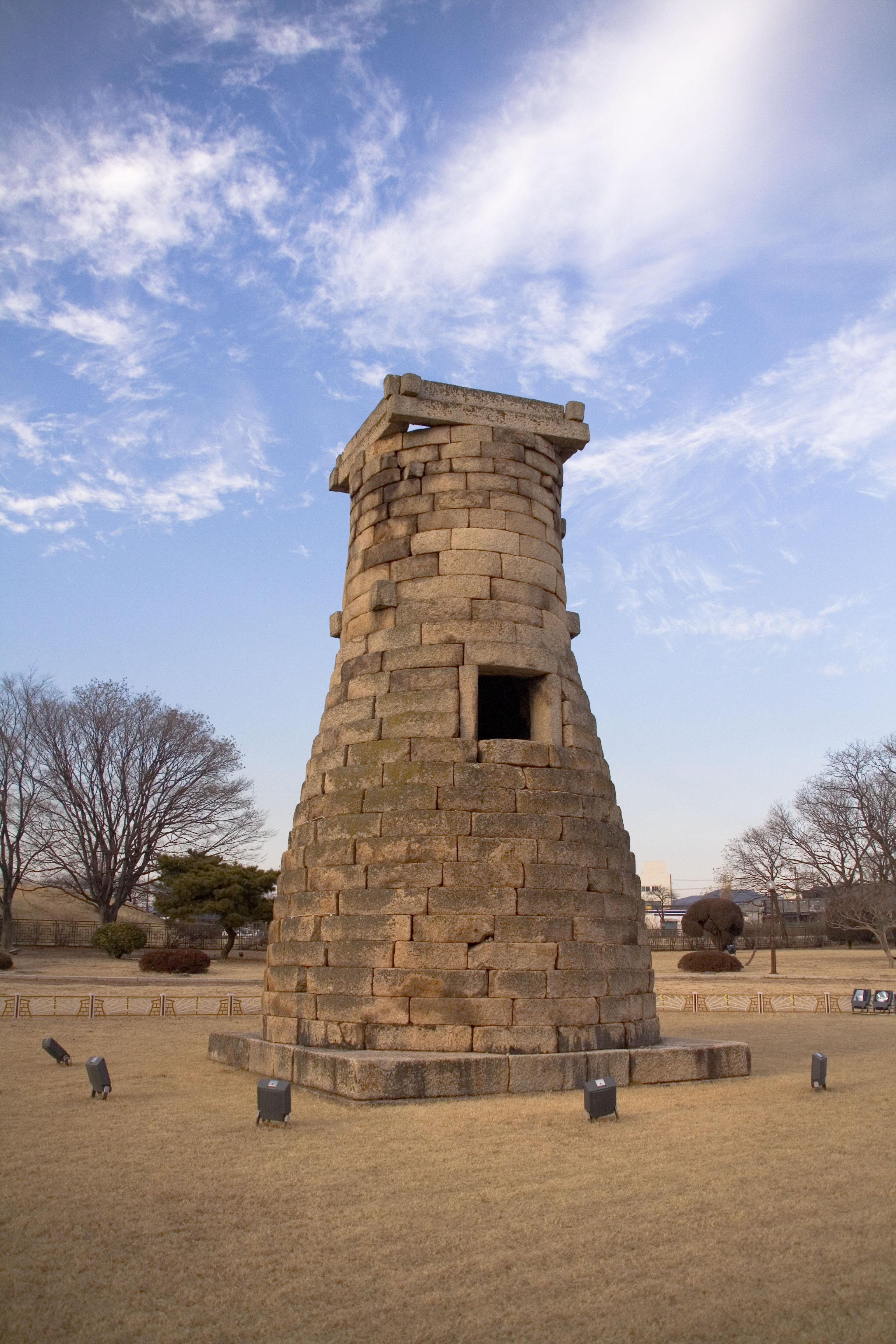 I could be mistaken but I am told this is the first Observatory in East Asia.